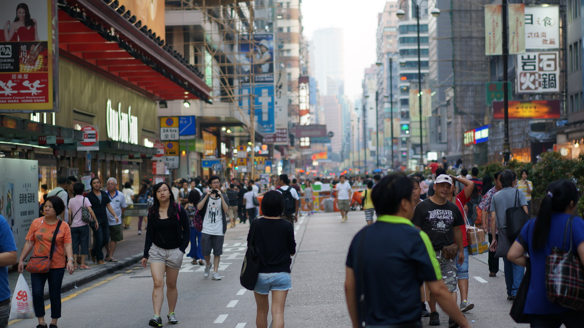 Nathan Road without vehicle